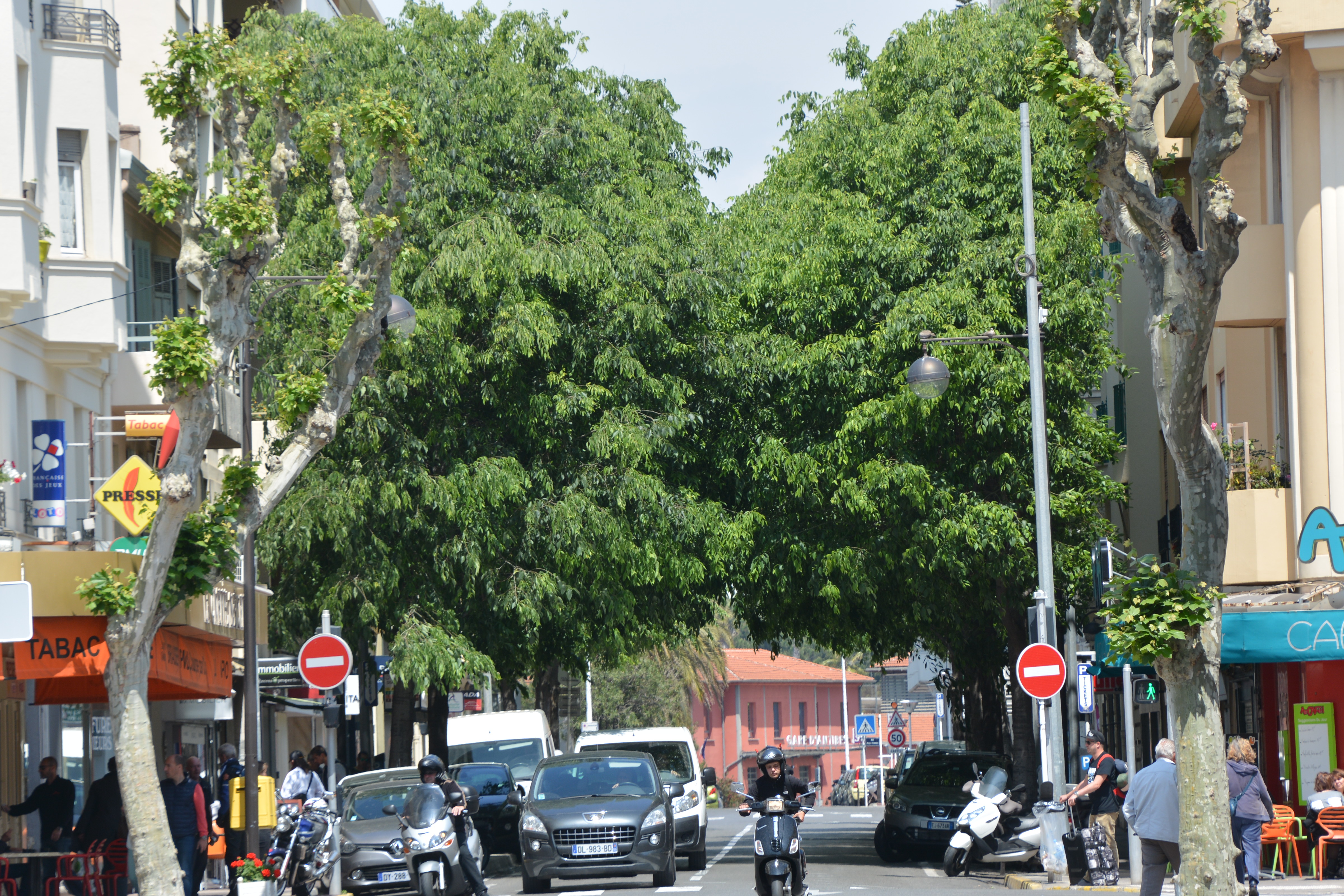 Alley of micocoulier trees, Avenue Robert Soleau northwards, Antibes. Gare SNCF in the background.